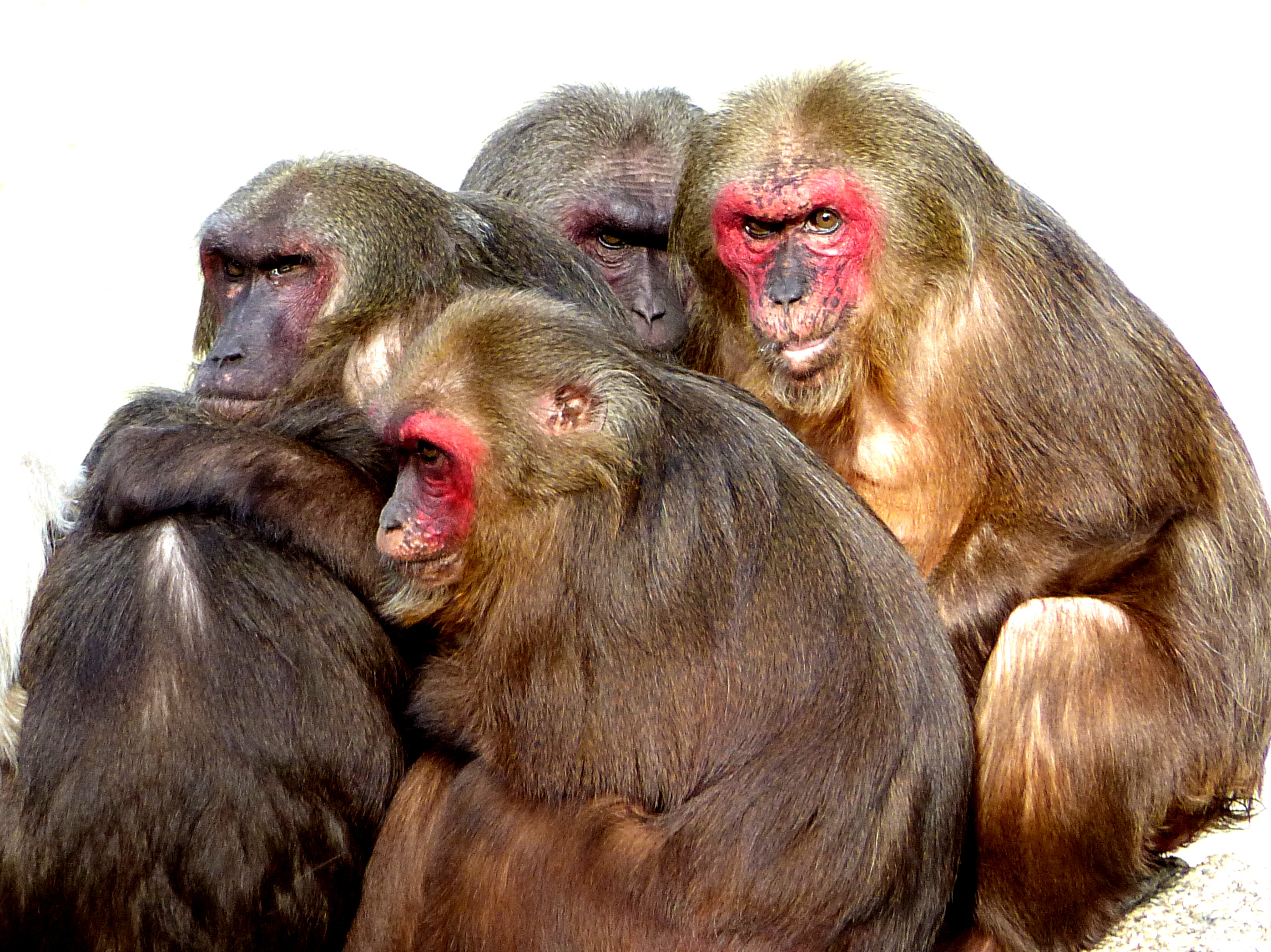 one more with my new Lumix DMC FZ200